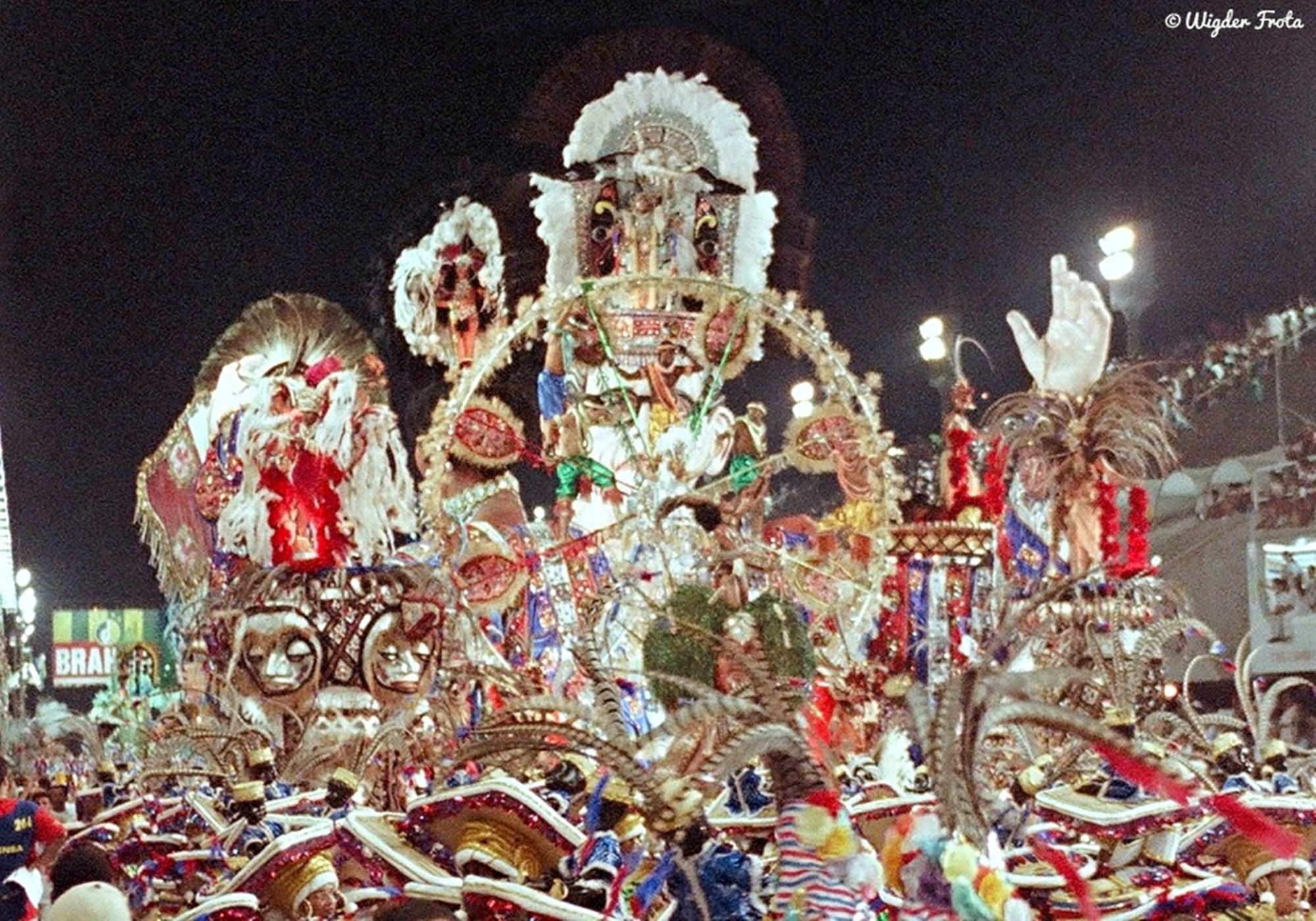 From the Series "Samba Schools, Rio de Janeiro" Carnival 1998 Photo: Wigder Frota